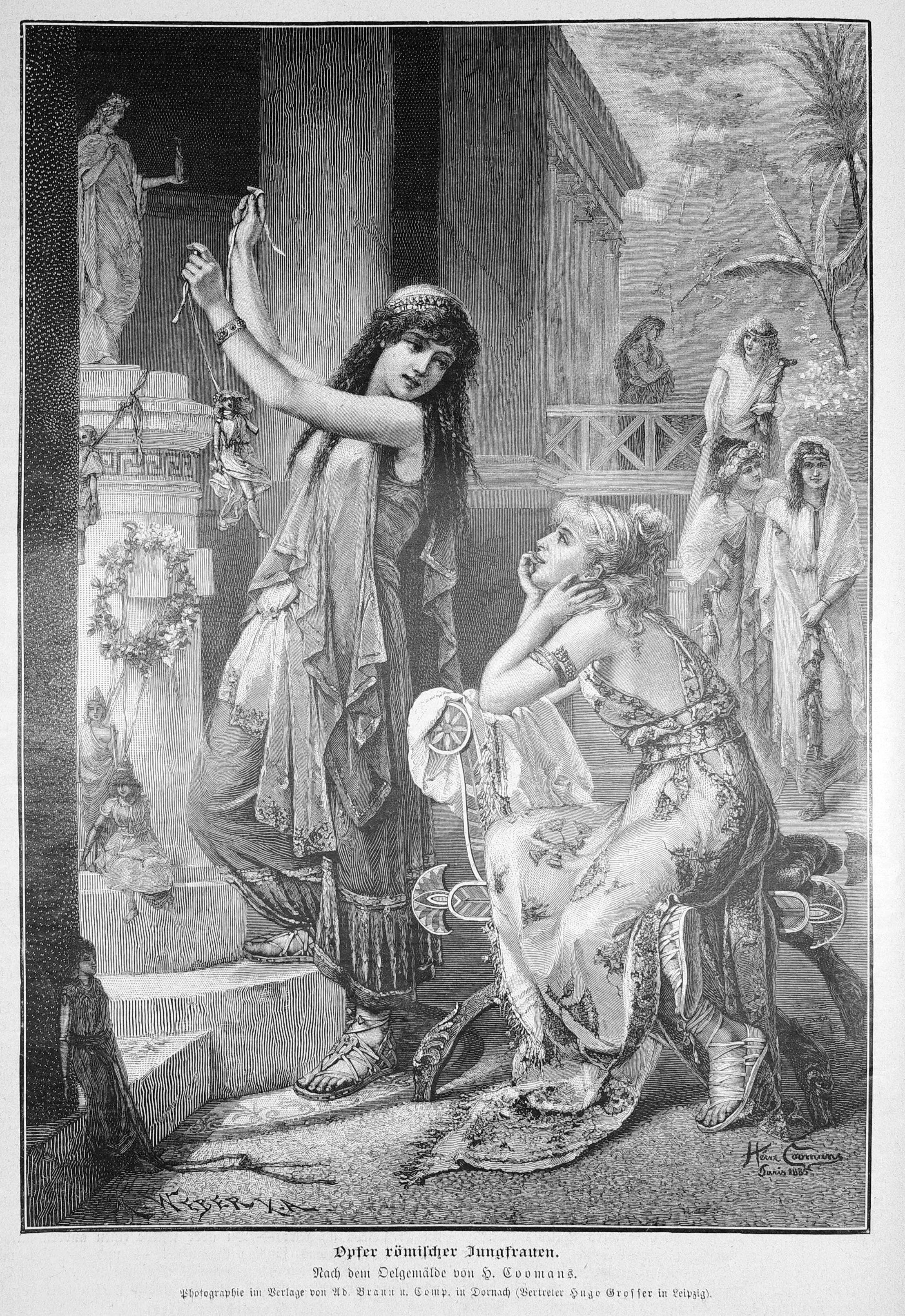 caption: "Opfer römischer Jungfrauen.Nach dem Oelgemälde von H. Coomans.Photographie im Verlage von Ad. Braun u. Comp. in Dornach (Vertreter Hugo Grosser in Leipzig)."